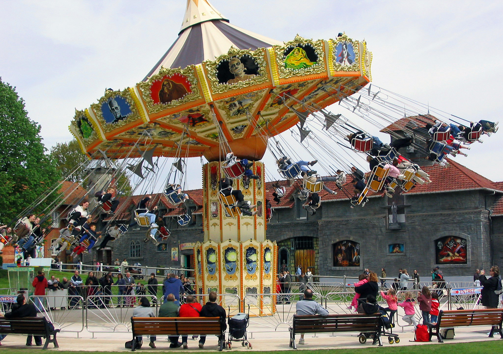 Wave Swinger at Parc Saint Paul, France